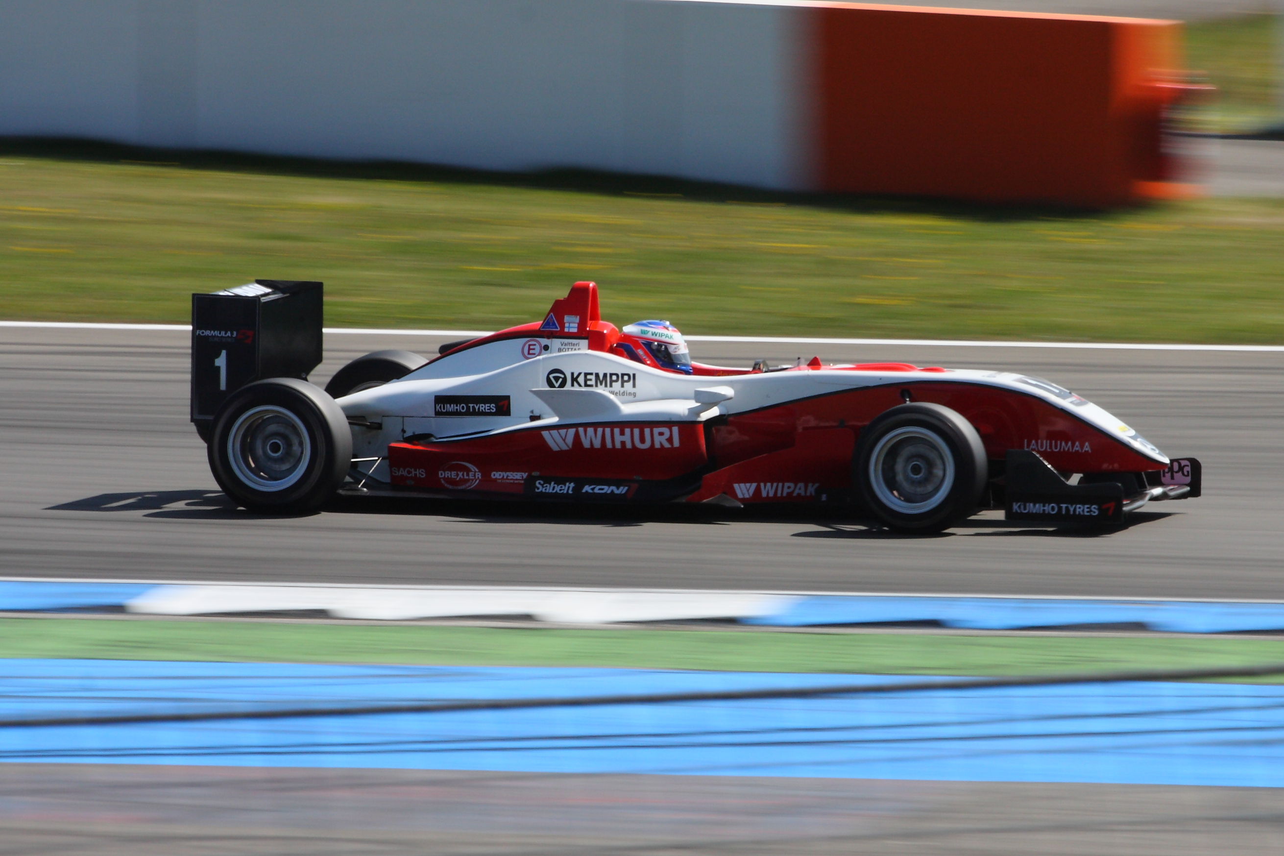 Formula 3 Euroseries, Hockenheimring; #1 Valtteri Bottas